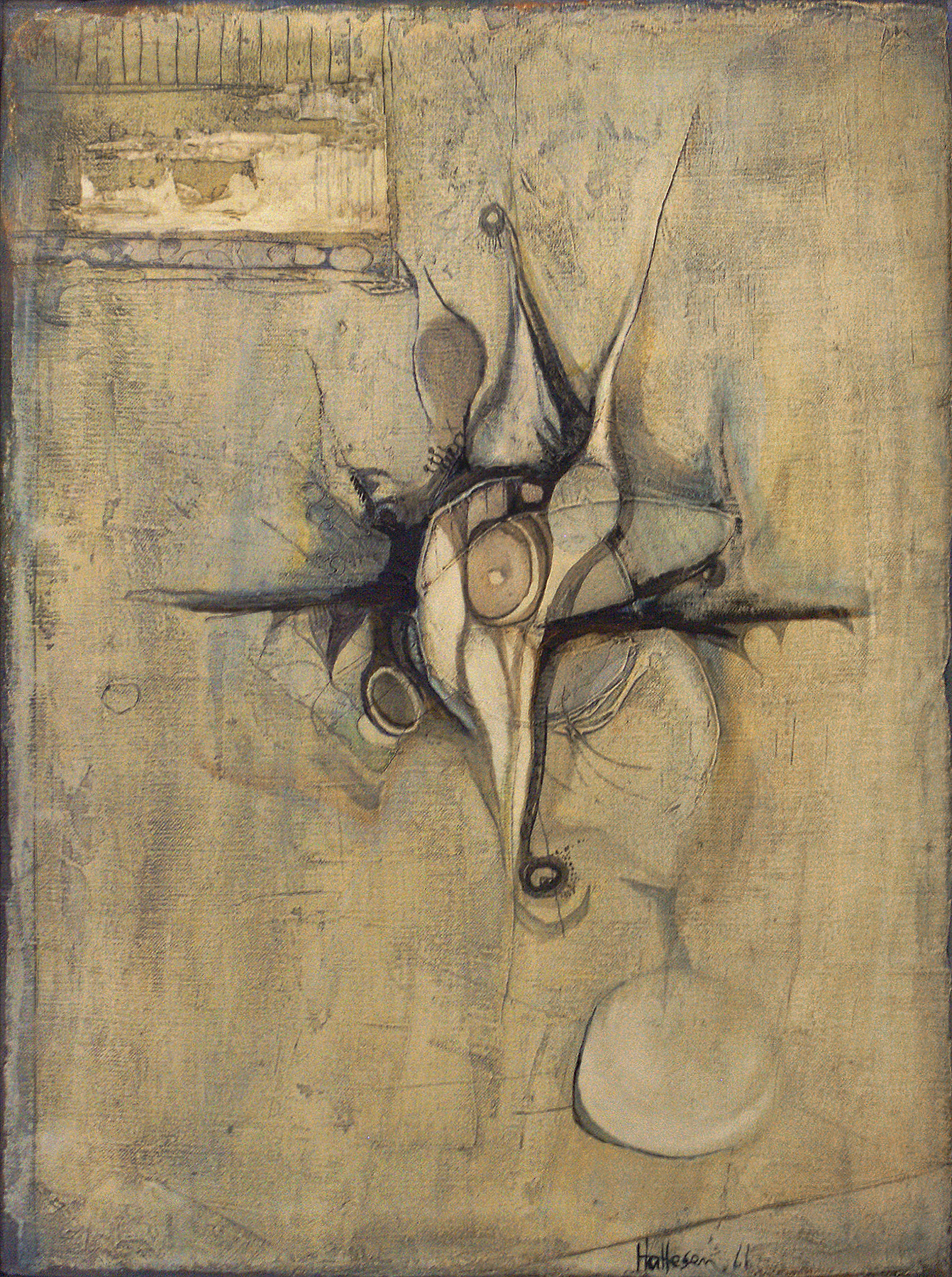 Early form II. Painting by German-Danish Artist Holger Hattesen (Flensburg 1937-1993)